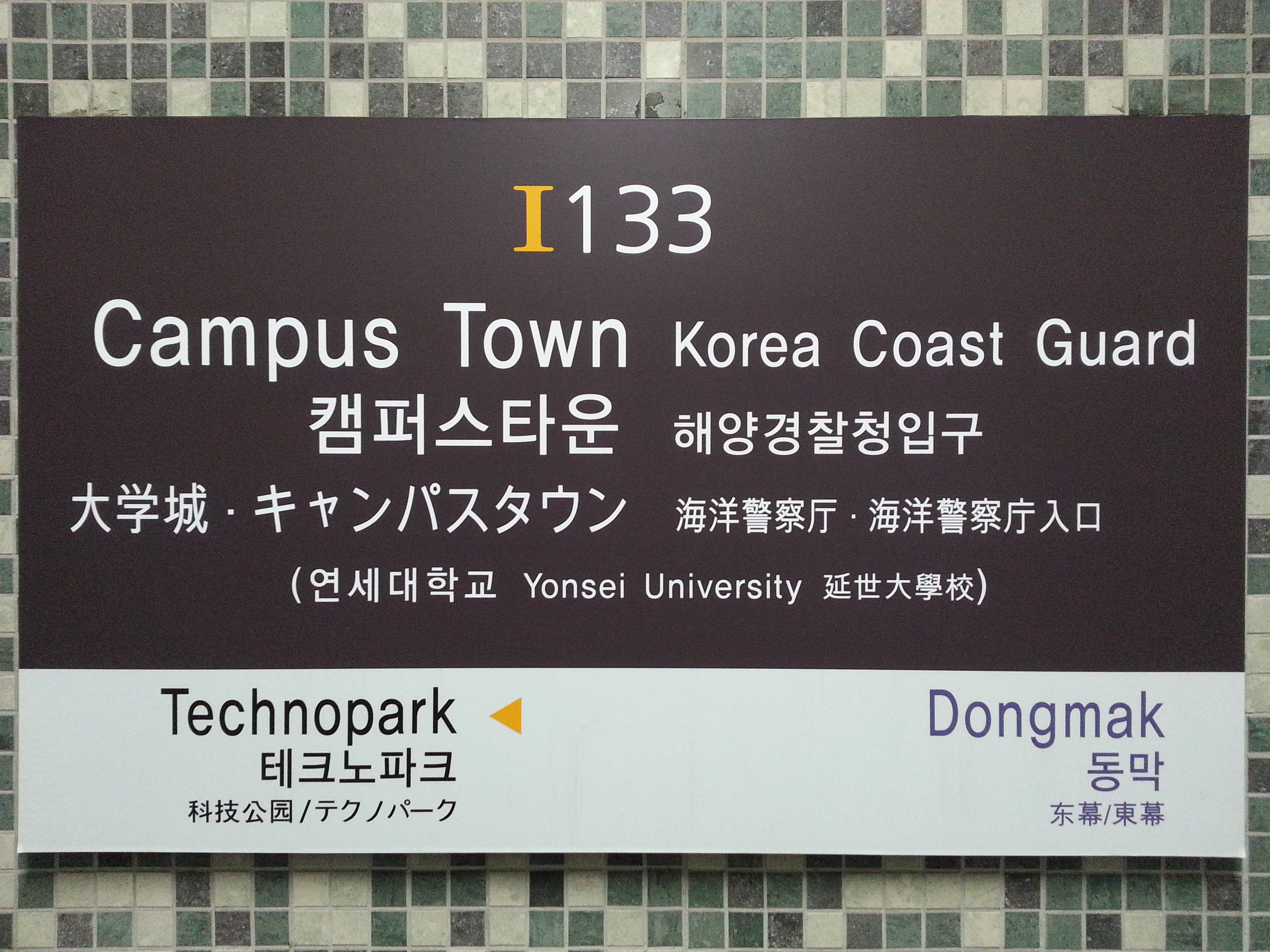 Incheon Metro 1st Line Campus Town Station.